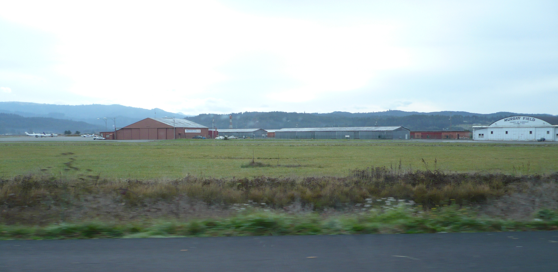 A view of Murray Field taken from US 101. Murray Field is a county-owned public-use airport three nautical miles (6 km) east of the central business district of Eureka in Humboldt County, California, United States.